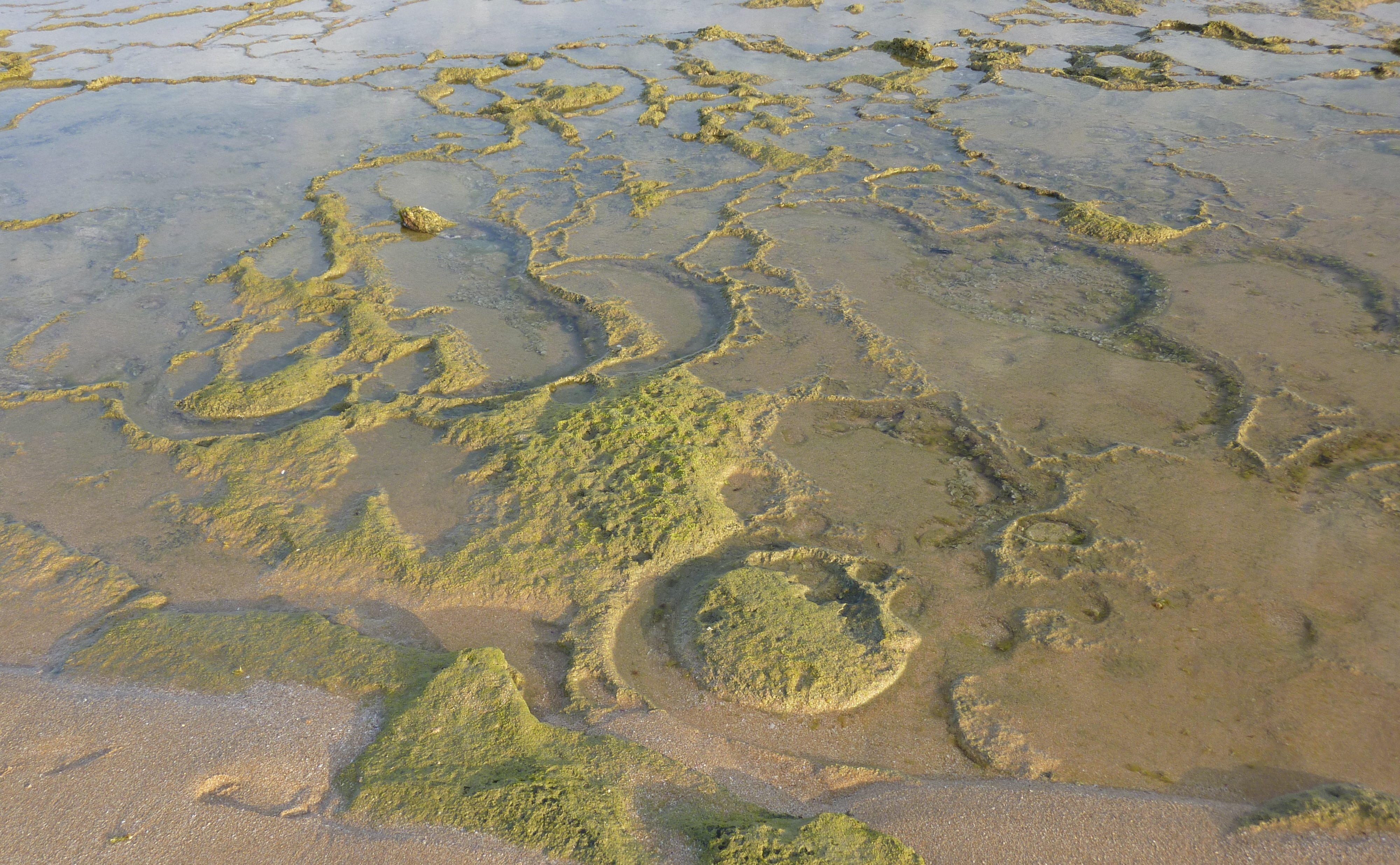 Marmitas on the rock plate in front of Cape Trafalgar, partly created by whirlpool erosion, partly by the extraction of material for antique columns